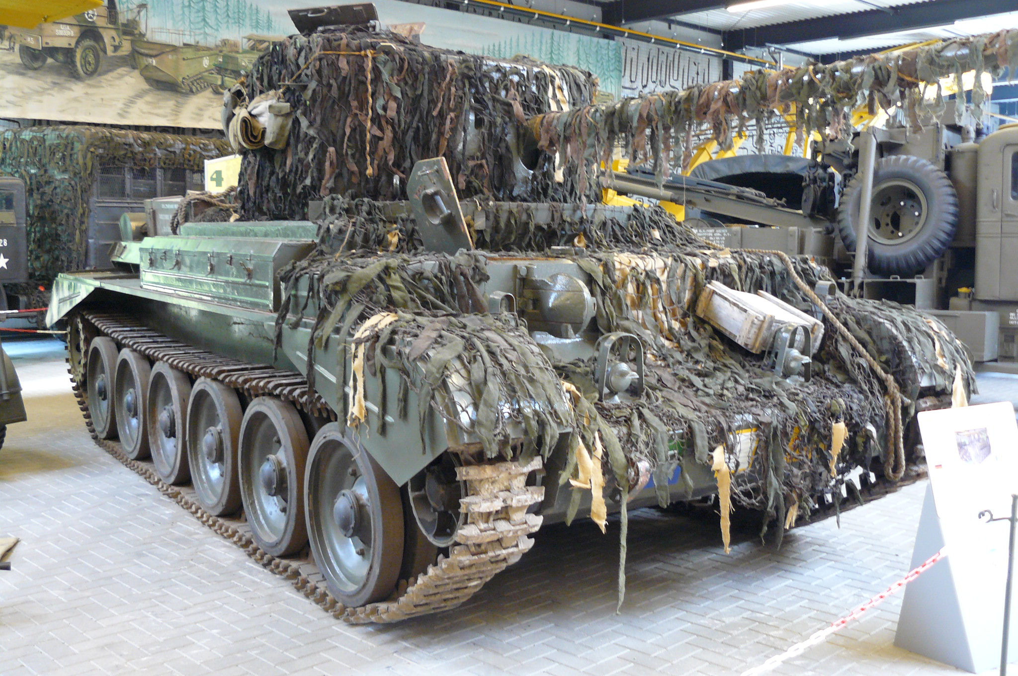 A30 Challenger as seen in the Liberty Park, Overloon, the Netherlands. Front left photo taken on 20 May 2012.